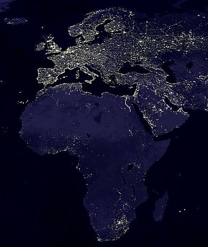 Satellite image at night of Europe and Africa